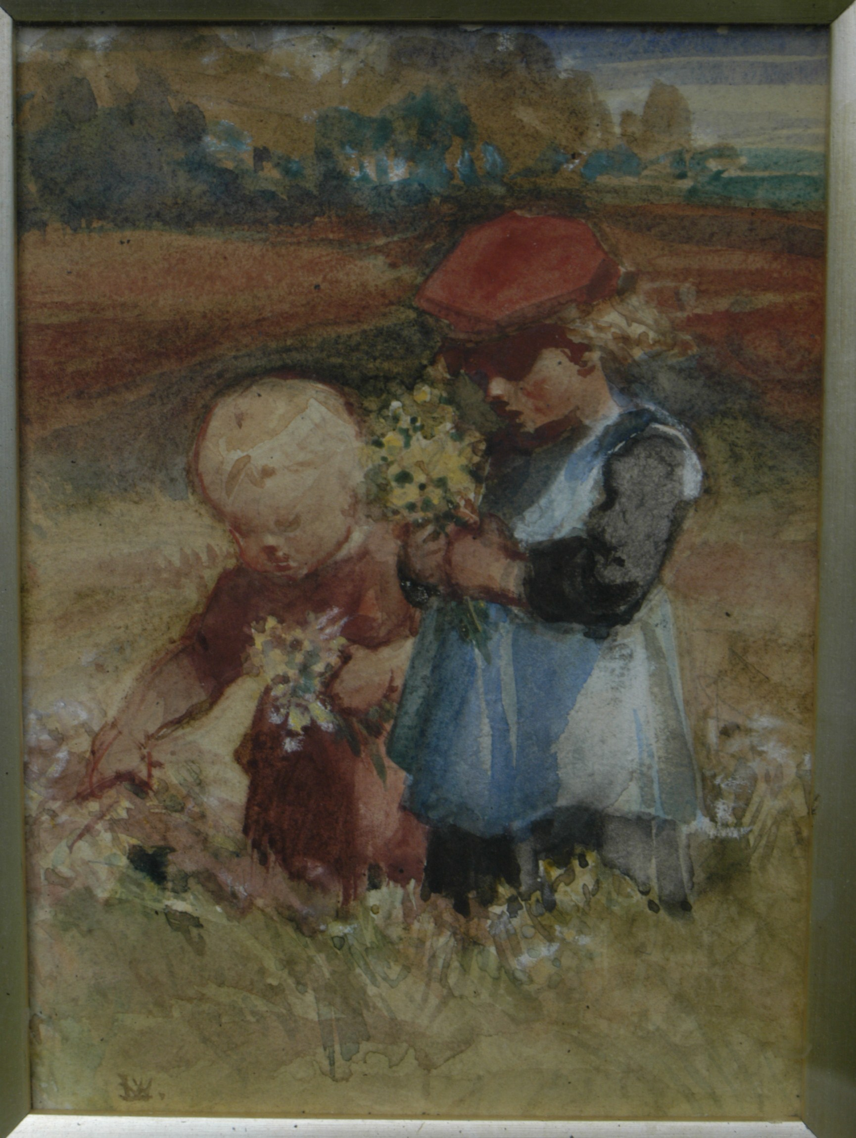 A watercolour drawing by Lady Waterford of two children, measures 8 x 5.5 inches, in a silvered frame.